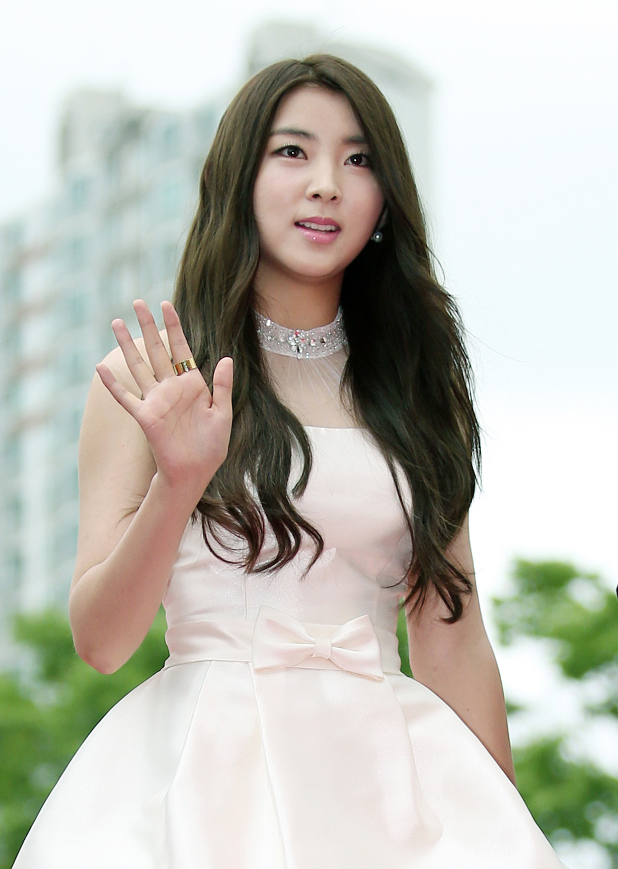 Kwon So-hyun arrives at the red carpet event of the Pifan in Bucheon on July 17, 2014